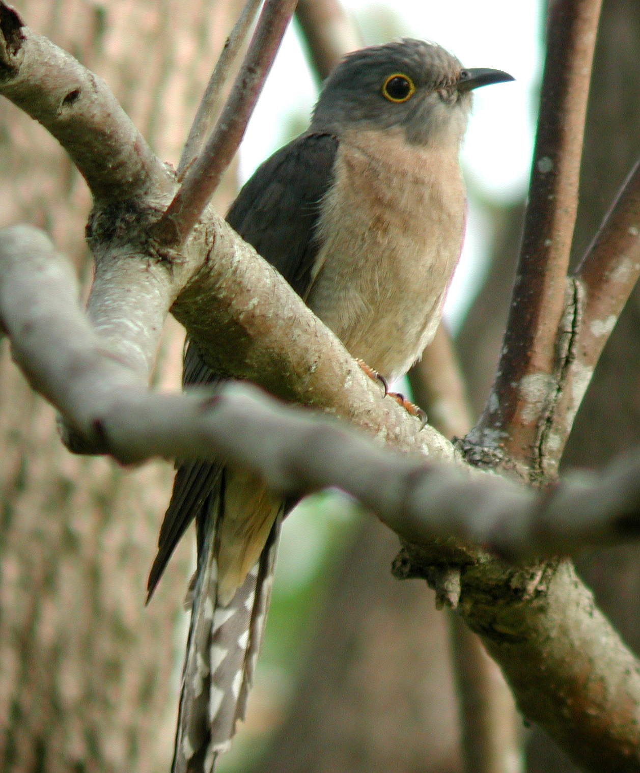 Fan-tailed Cuckoo (Cacomantis flabelliformis) Dayboro, SE Queensland, Australia